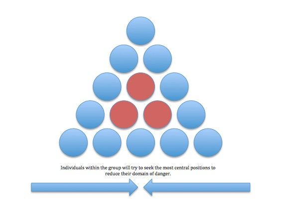 Prey will seek central positions within a group to reduce their domain of danger.